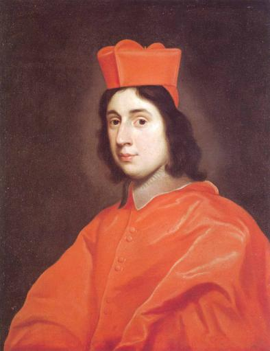 Portrait of Cardinal Sigismondo Chigi